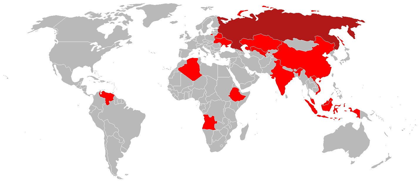 World map of Sukhoi Su-27 and Sukhoi-30 operators